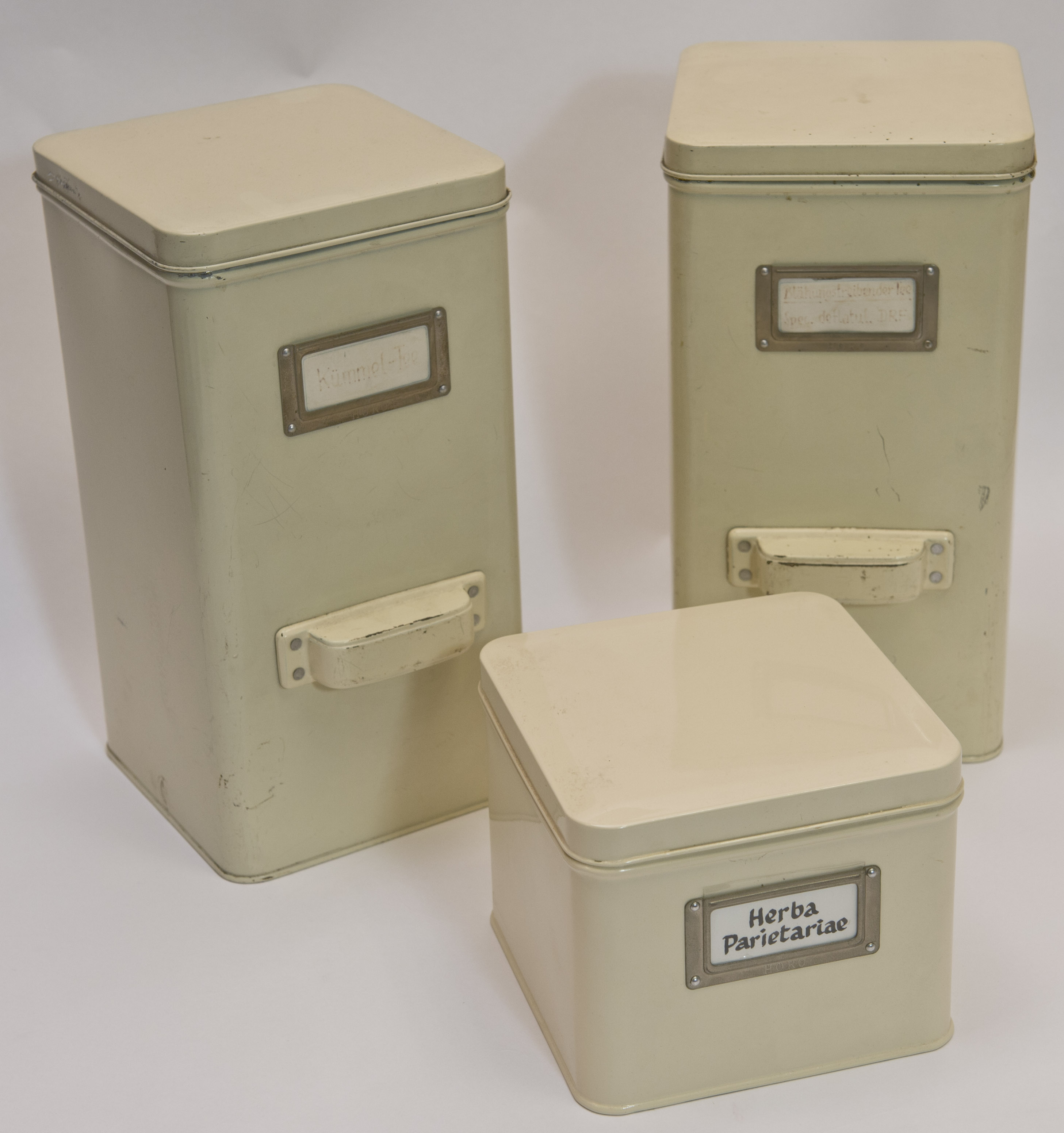 Tea cans from pharmacy